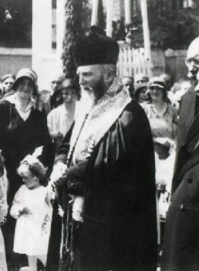 Gedaly Rozenman, the last great-Rabby of Bialystok, killed in 1943 by the nazis